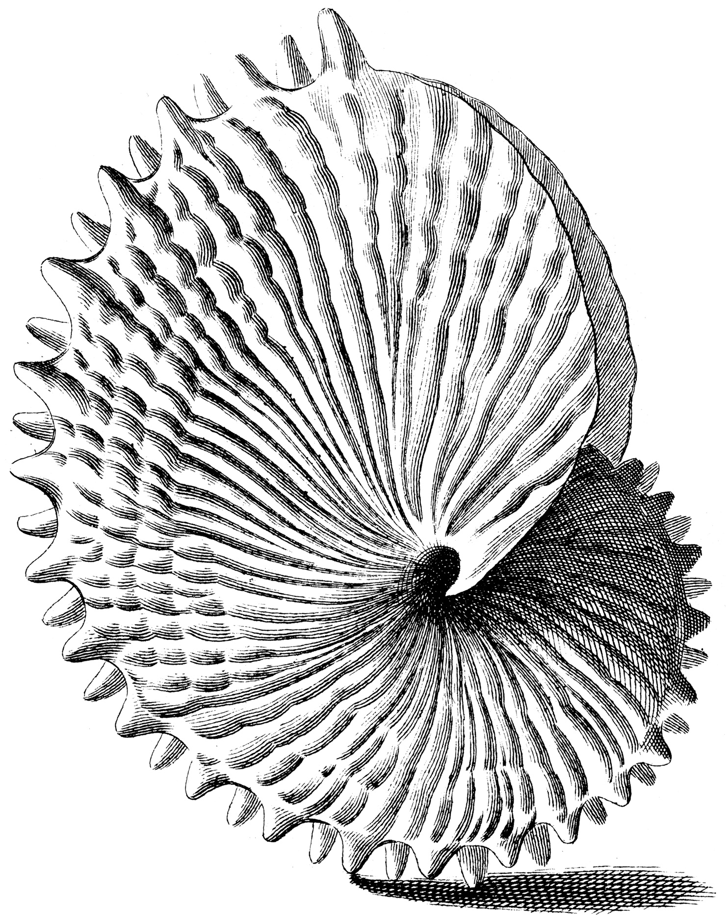 A shell of female pelagic cephalopod Argonauta nodosa which serves as an eggcase. A drawing by Niccolò Gualtieri (1742).